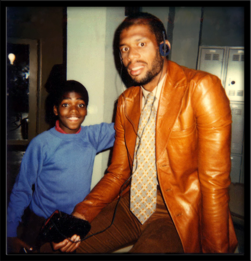 Circa 1982. Actor Shavar Ross with basketball player Kareem Abdul Jabbar on the set of Diff'rent Strokes.